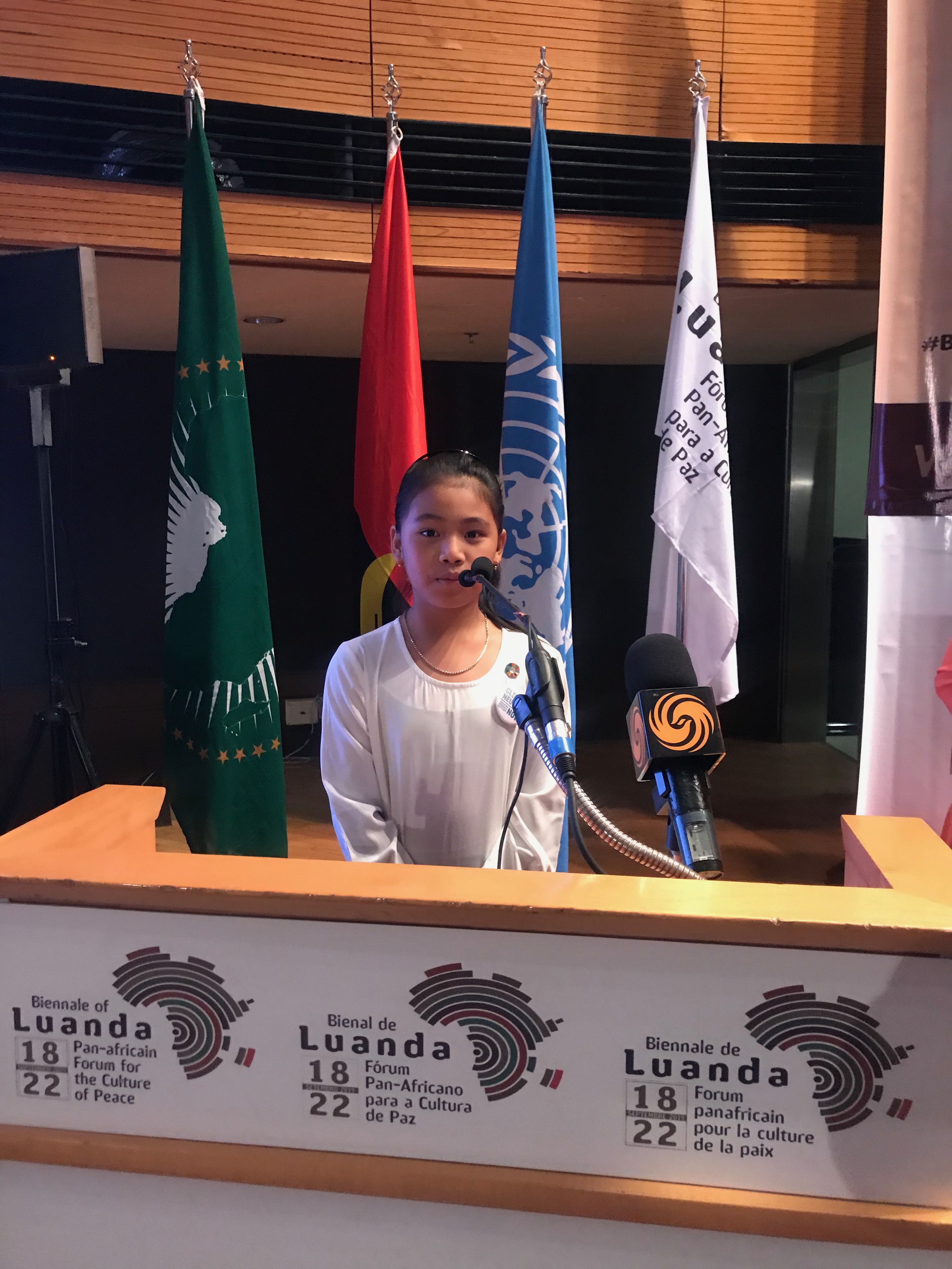 Licypriya addressing UNESCO Partners’ Forum 2019 (Biennial Luanda) in Angola on 20 September 2019.